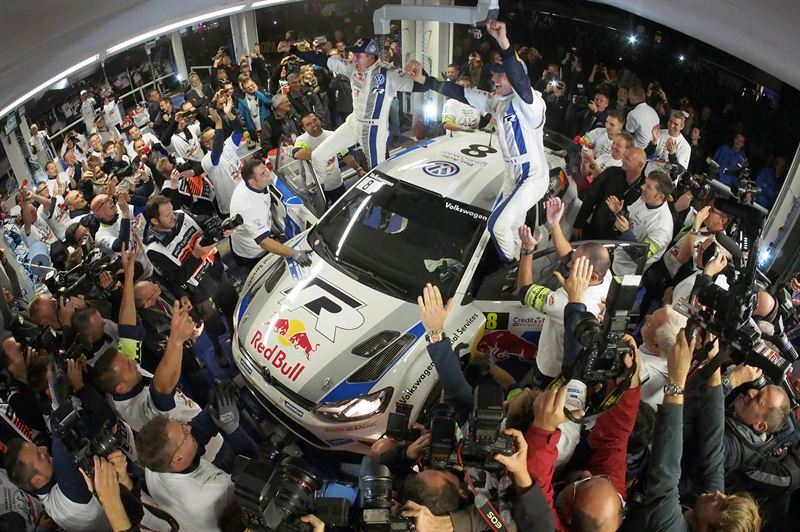 Sébastien Ogier (right) and co-driver Julien Ingrassia celebrate their first World Championship, after winning the 2013 Rallye de France.